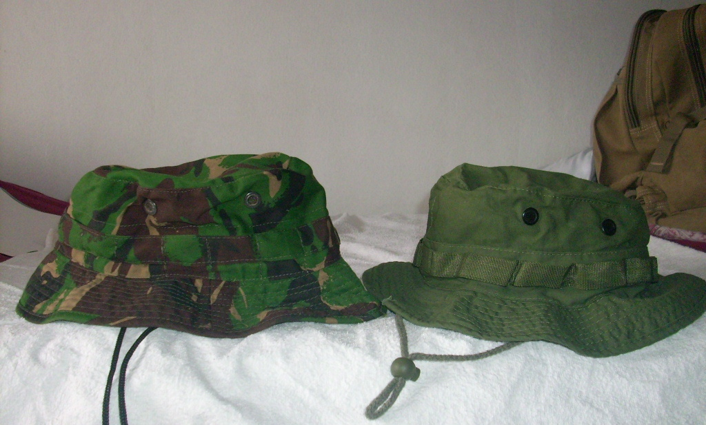 British bush hat in DPM and faithful replica of USA M. 68 boonie hat in olive green